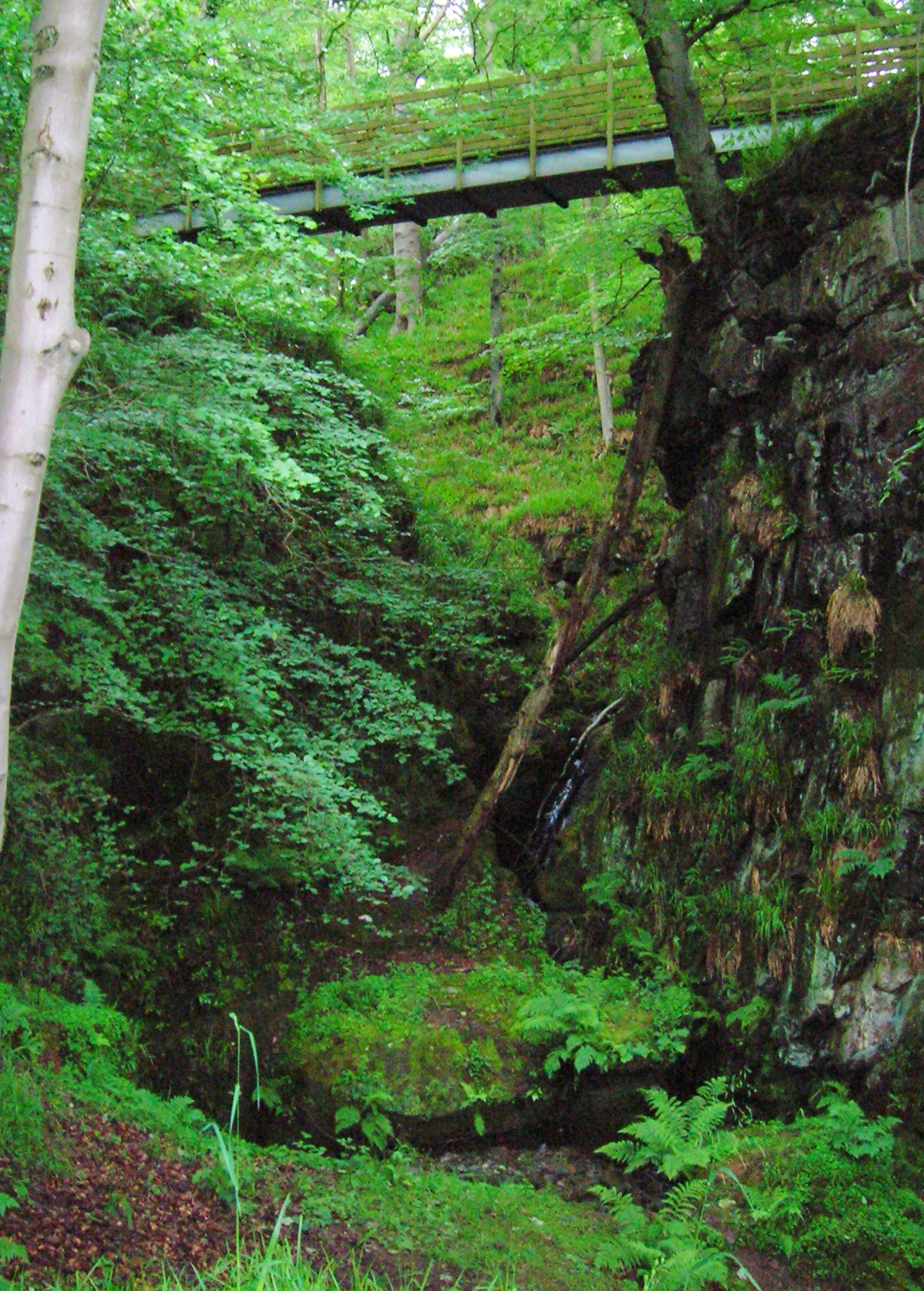 Robbie Burns' bath, Kingencleugh, Mauchline, Scotland